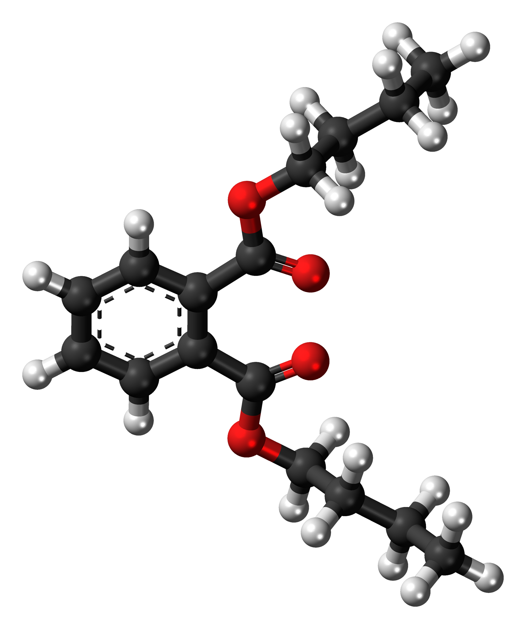 Ball-and-stick model of the dibutyl phthalate molecule, a commonly used plasticizer. Colour code: Carbon, C: black Hydrogen, H: white Oxygen, O: red